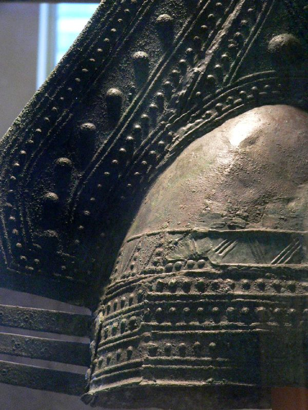 Etruscan Faliscan Commanders Crested Helmet Detail 8th century BCE Photographed at the University of Pennsylvania Museum of Archaeology and Anthropology